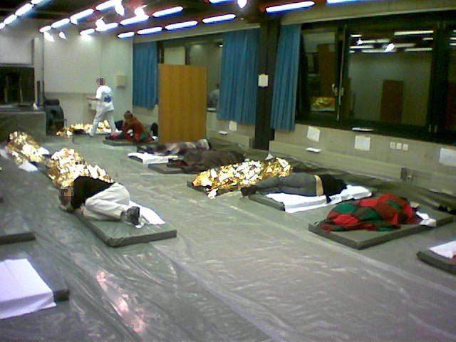 This image (or all images in this category/page) is very small, unfixably too light/dark, or may not adequately illustrate the subject of the picture. If a higher-quality image is available please consider replacing this one; otherwise, a replacement under a free license should be found or provided. Please see Category:Image cleanup templates for templates used to mark images that only need a clean-up. For more help, see Commons:Media for cleanup#Low quality pictures.